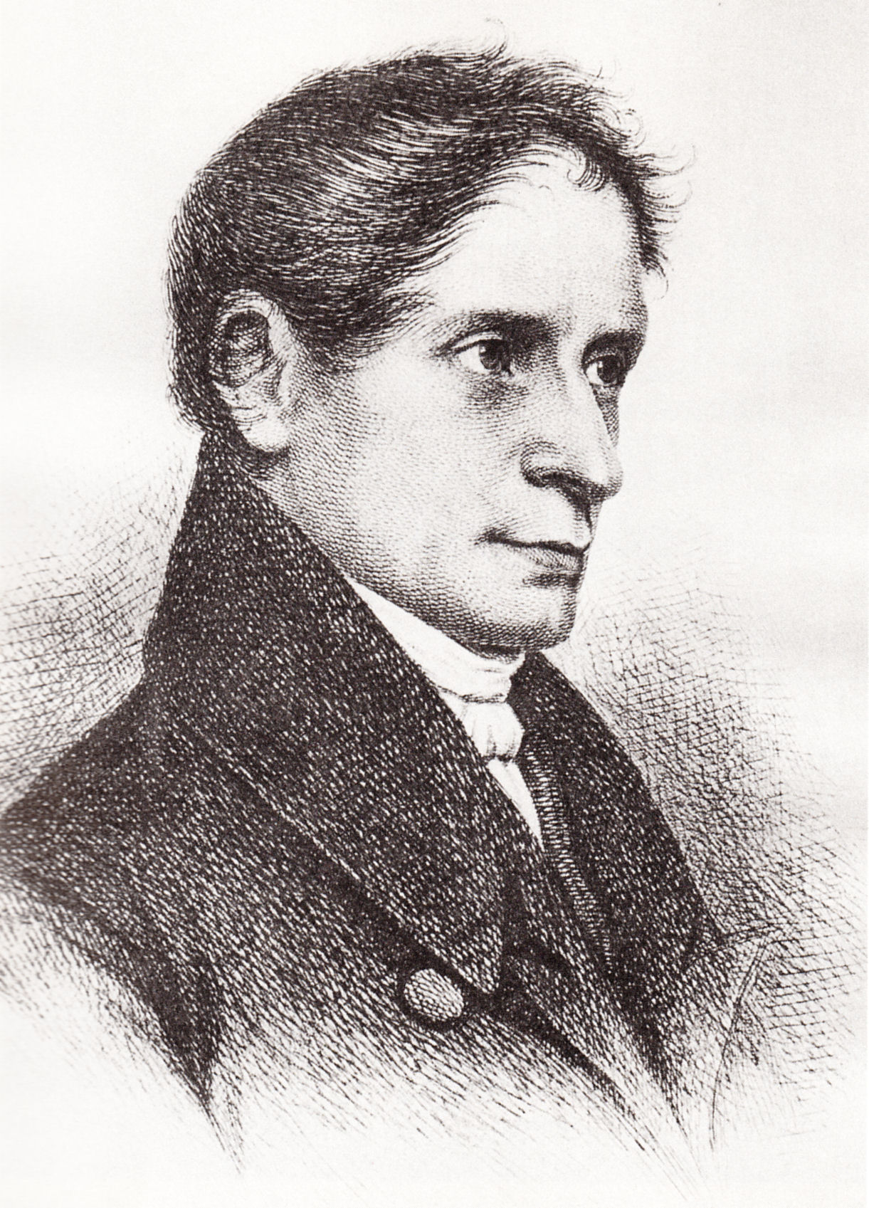 Etching based on drawing by Franz Kugler.